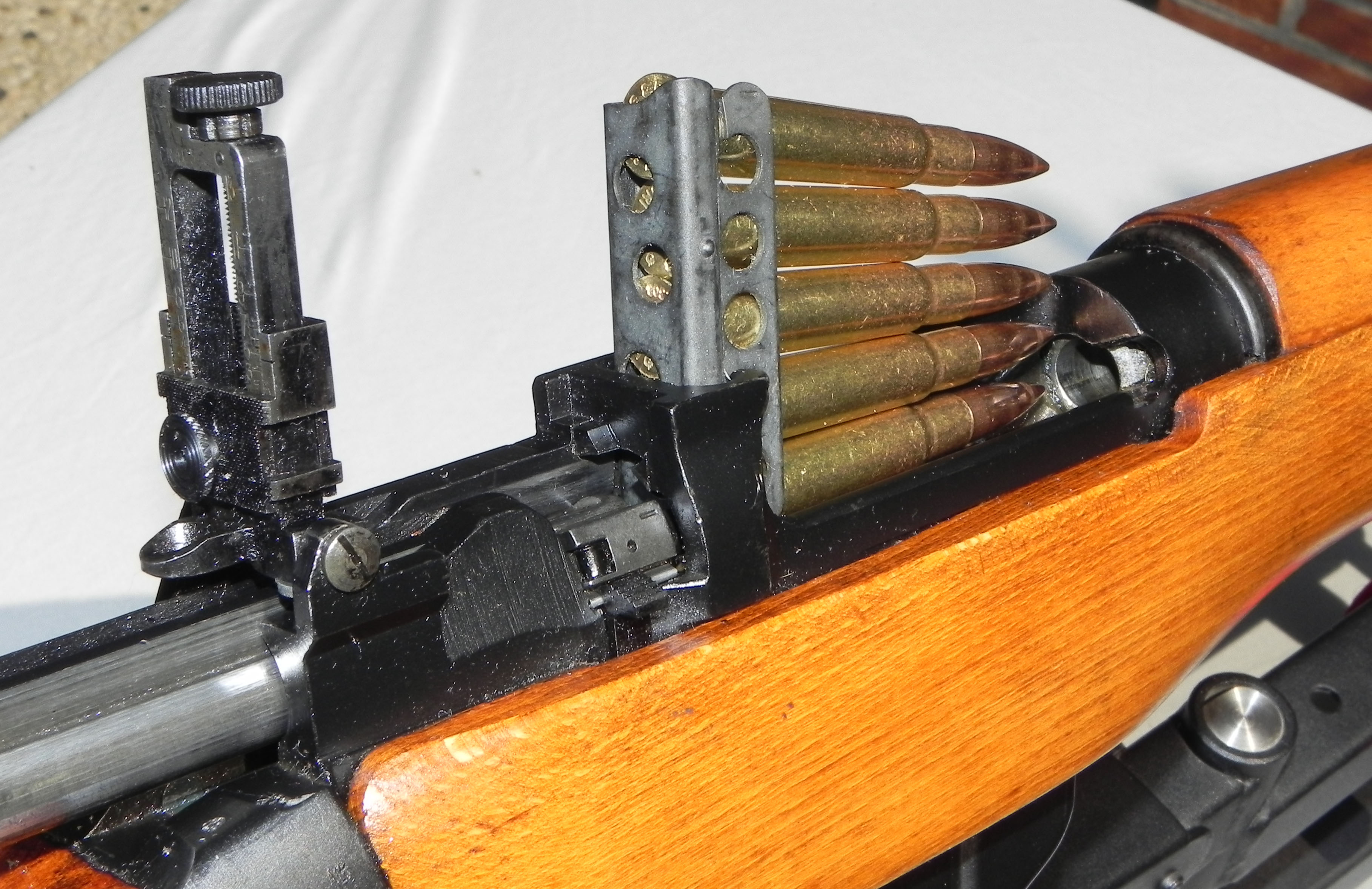 Lee-Enfield No.4 Mk 2 (1954) with a flipped up rear aperture sight and a 5-round .303 British clipper strip